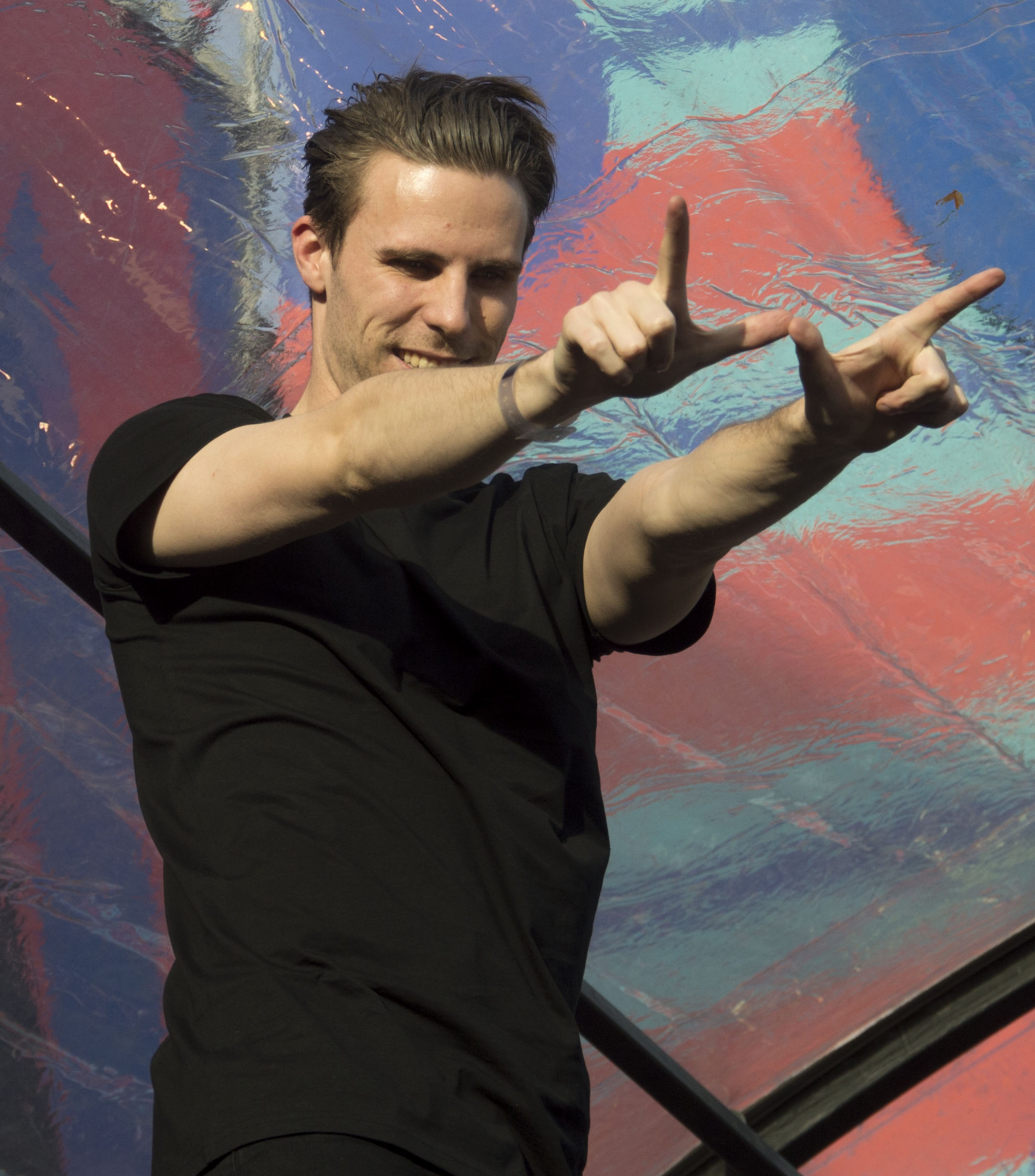 Willem van Hanegem during W&W's set at Breda Dance Music Festival.